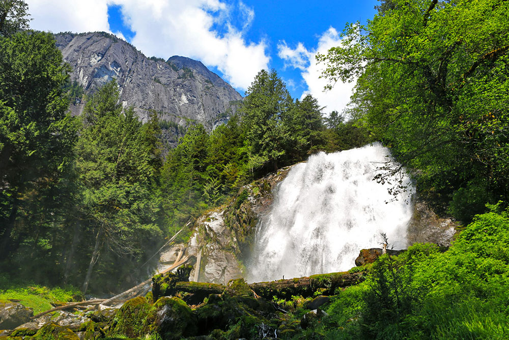 Chatterbox Falls close-up.